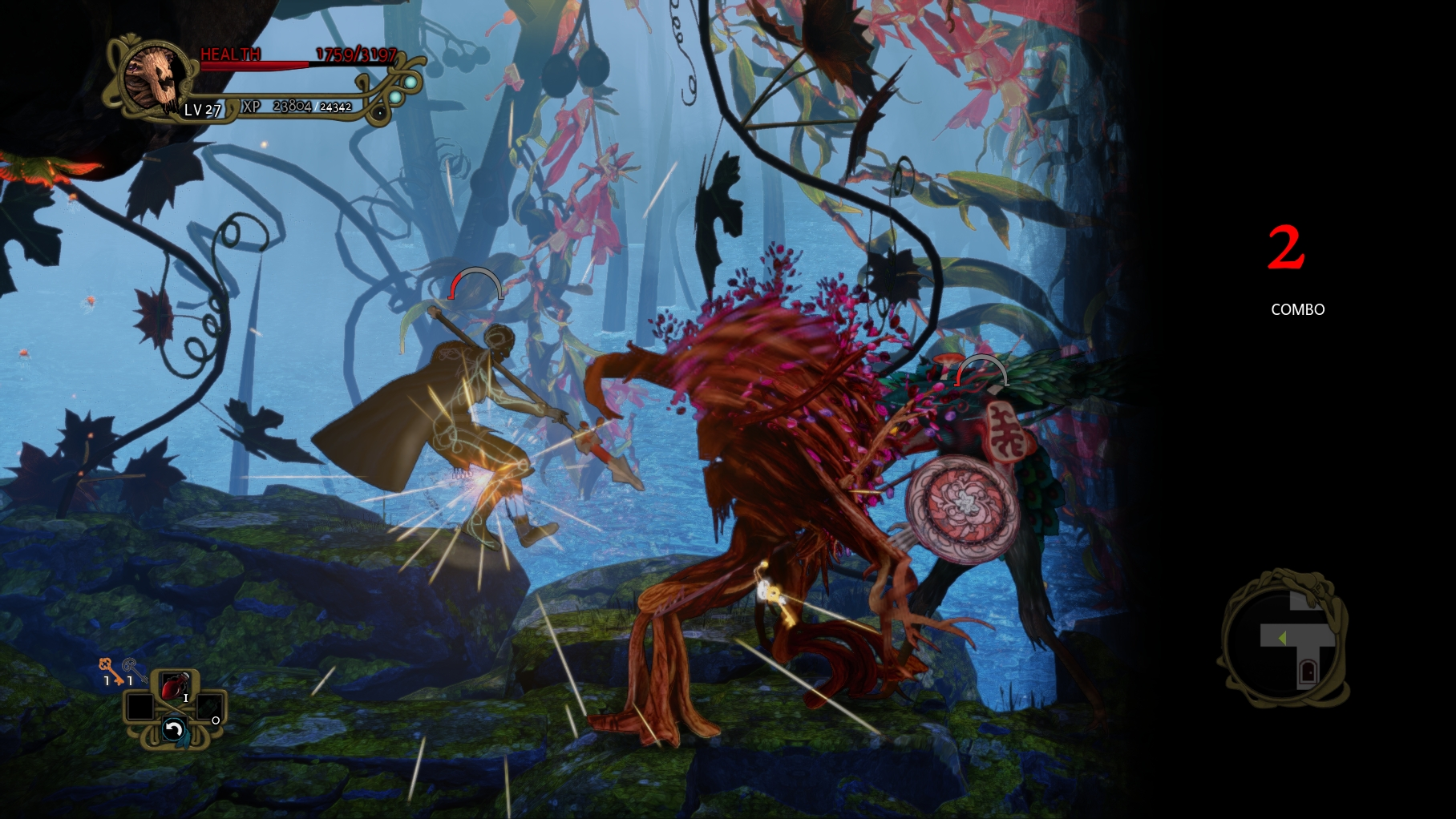 Abyss Odyssey screenshot. Released in 2014, the game was developed by ACE Team and is powered by Unreal Engine 3.